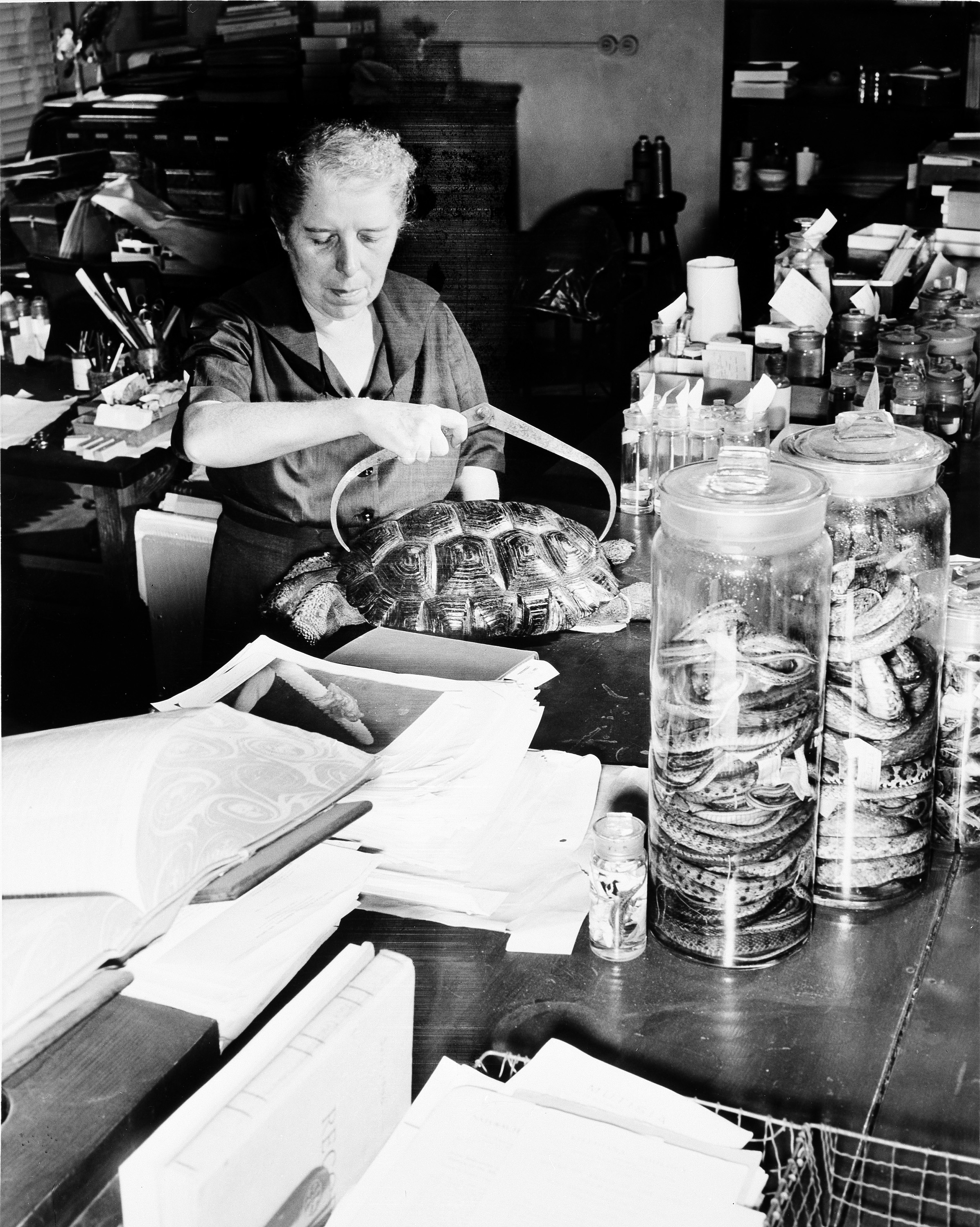 Doris Mable Cochran (1898-1968) of the United States National Museum Division of Reptiles and Amphibians studied the reptiles and amphibians of Central and South America and of the West Indies, especially Haiti. Cochran published a large number of popular articles and books on herpetology, and was also an accomplished scientific illustrator.